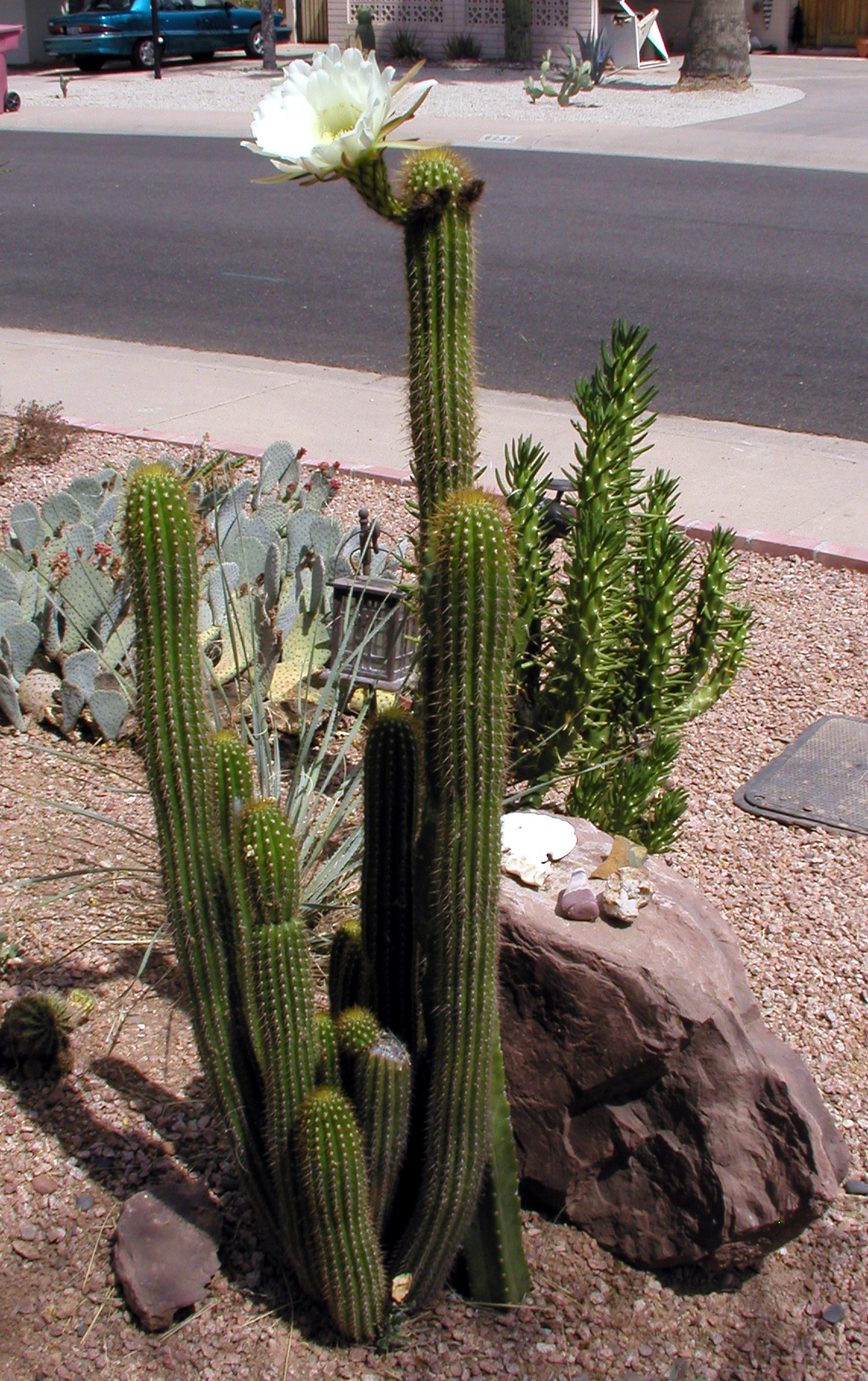 A Torch cactus flowering.A huge white flower appeared overnight on this cactus in our front yard. I rushed to get lots of photos since these typically last no more than one day.